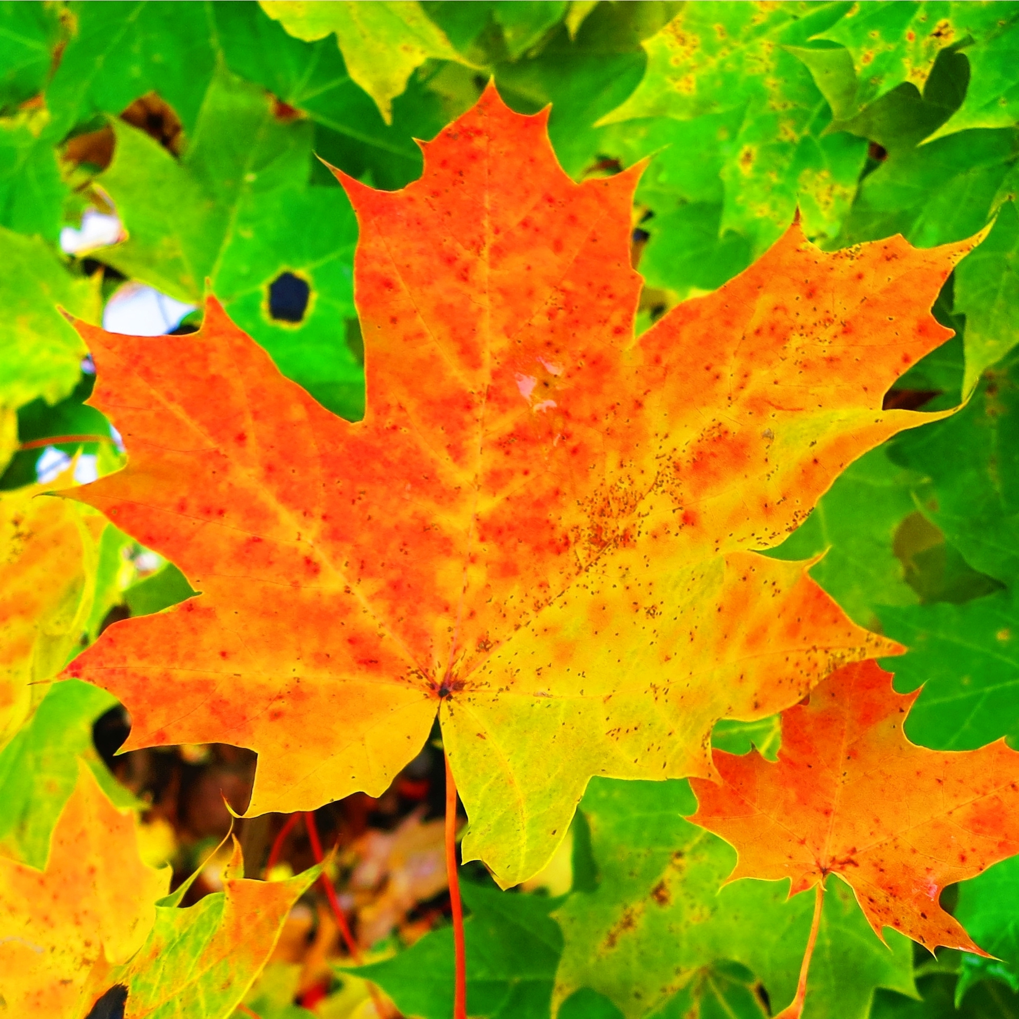 Acer platanoides leaf in October (Hyvinkää, Finland)